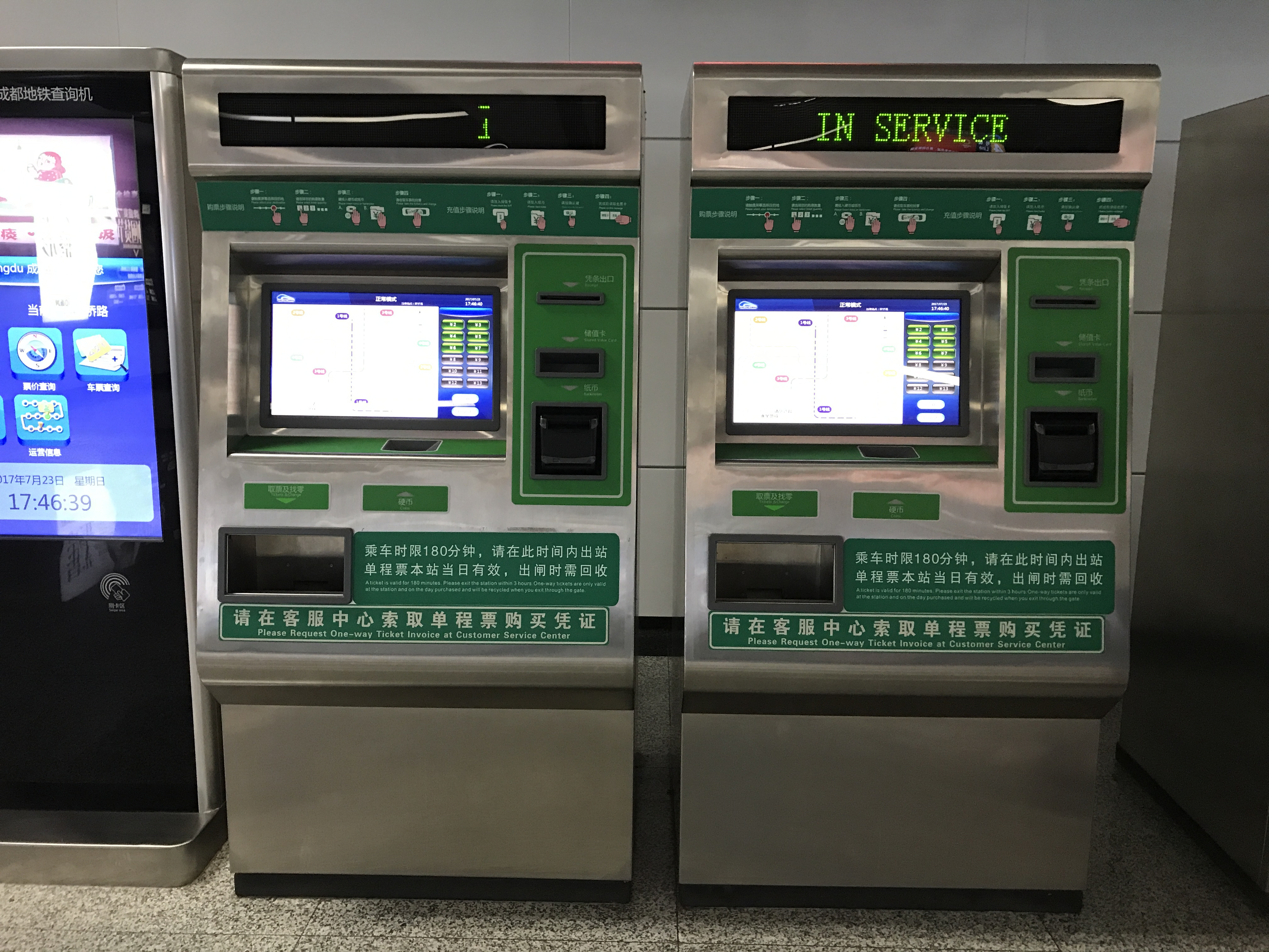 TVM in Shuangqiao Road Station, Chengdu Metro